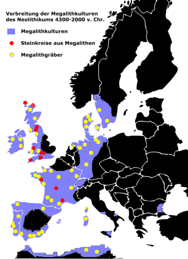 Spread of Megalith_culture_in_Europe